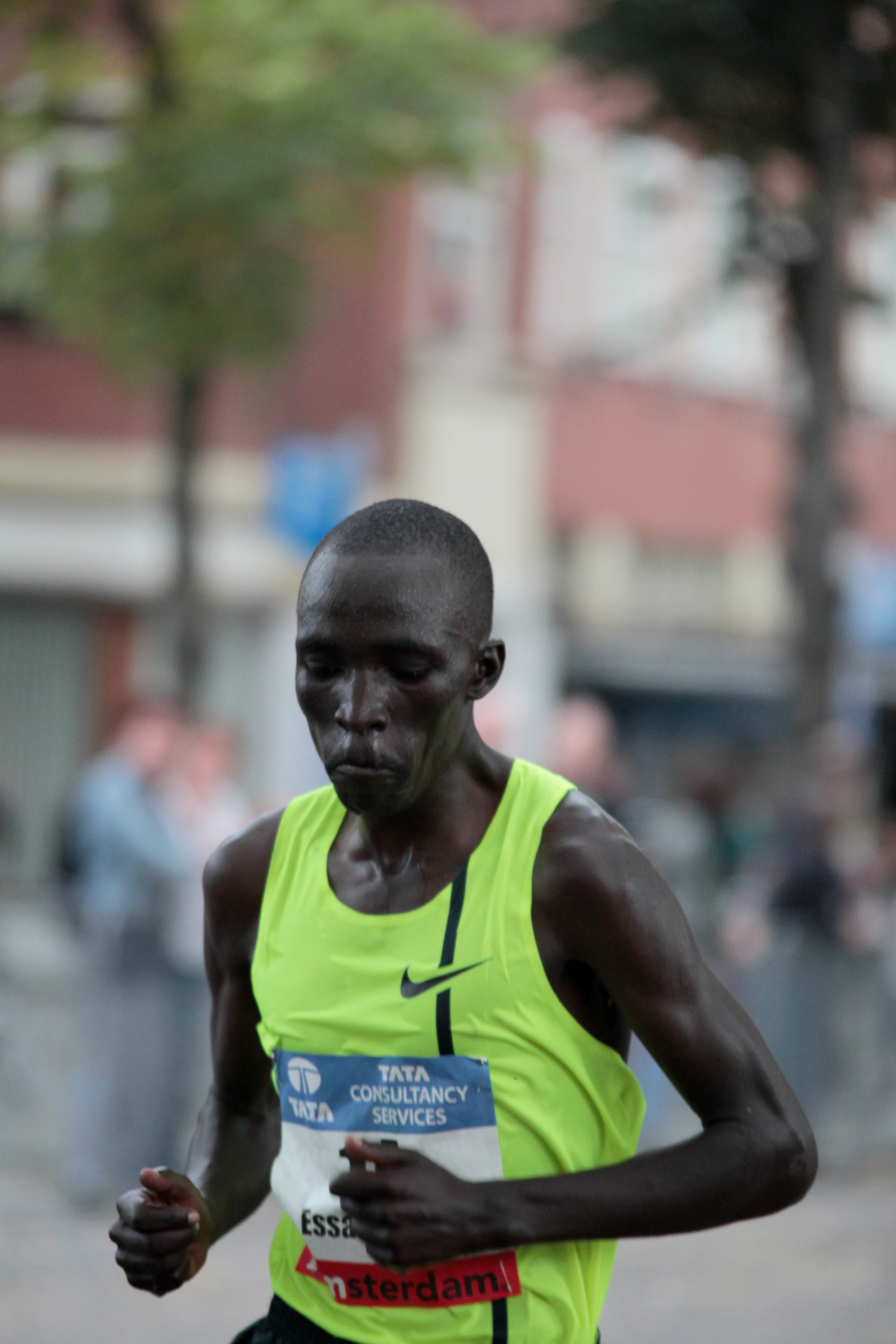 Essa Rashed at the 2014 Amsterdam Marathon (medium).